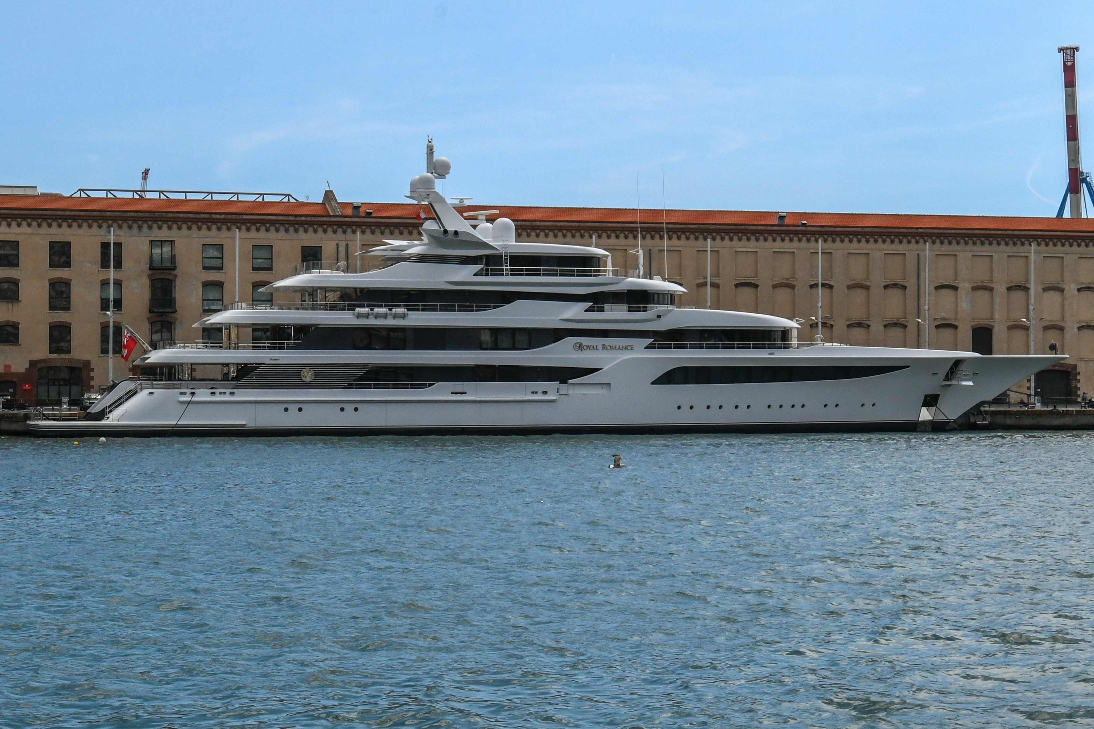 Royal Romance Yacht at Port of Genoa